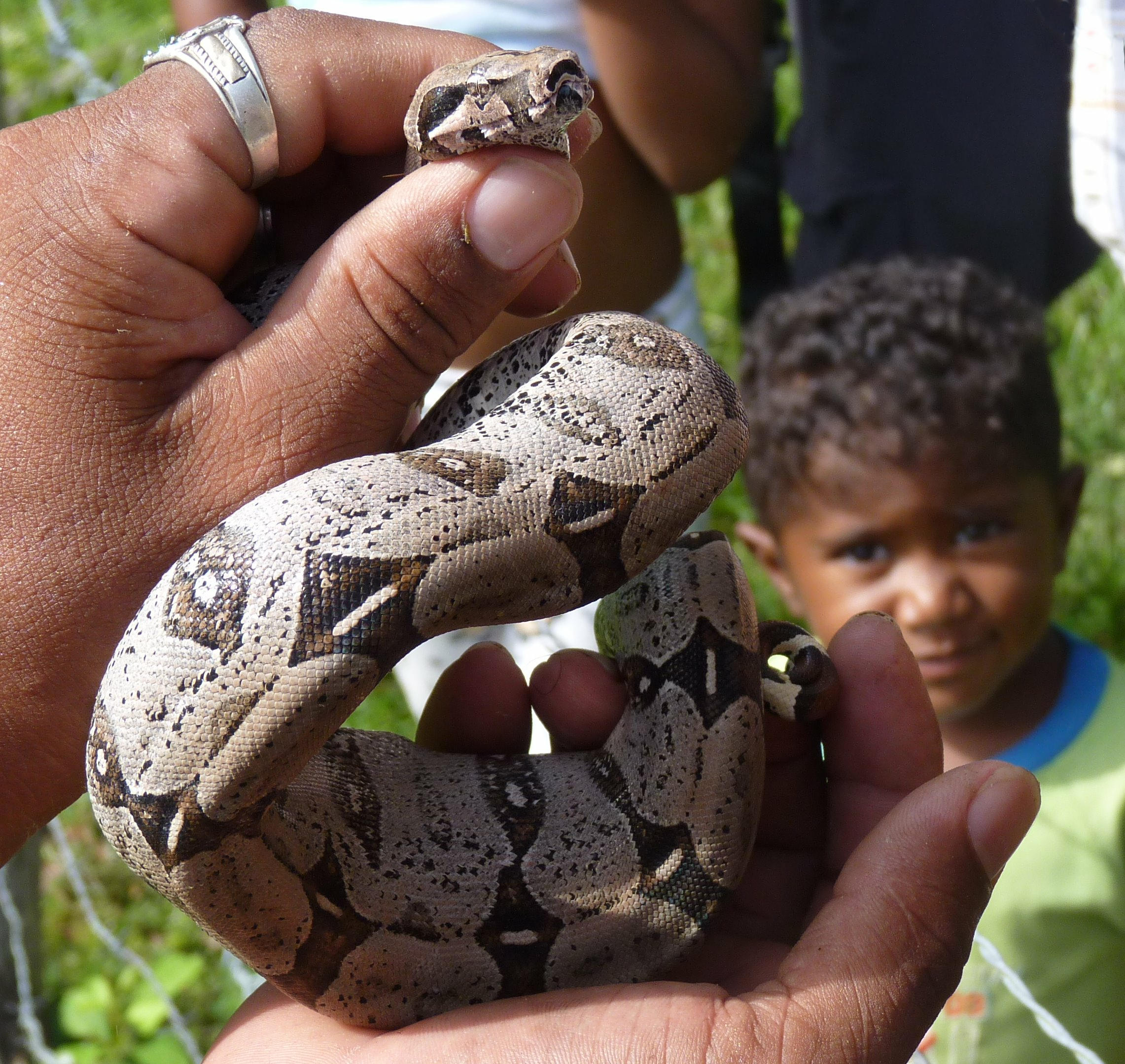 picture of an unknown Snake from Venezuela with a child in the background